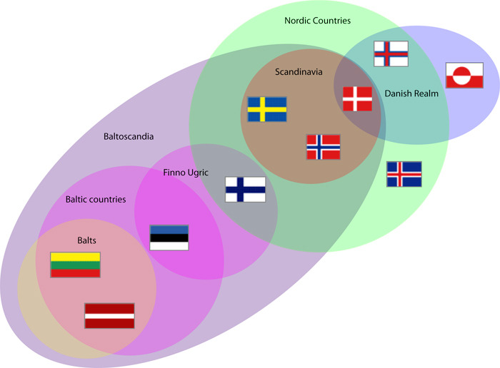 Euler diagram for various terms applied to Northern Europe